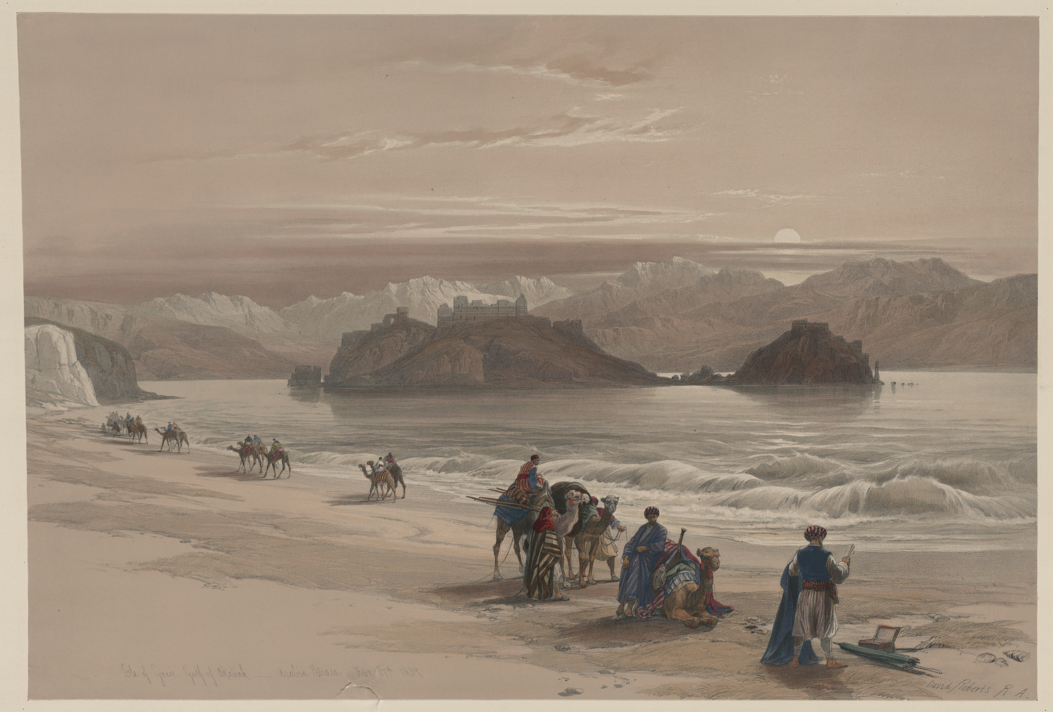 "Isle of Graia Gulf of Akabah Arabia Petraea"